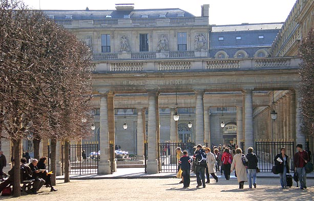 Palais-Royal garden